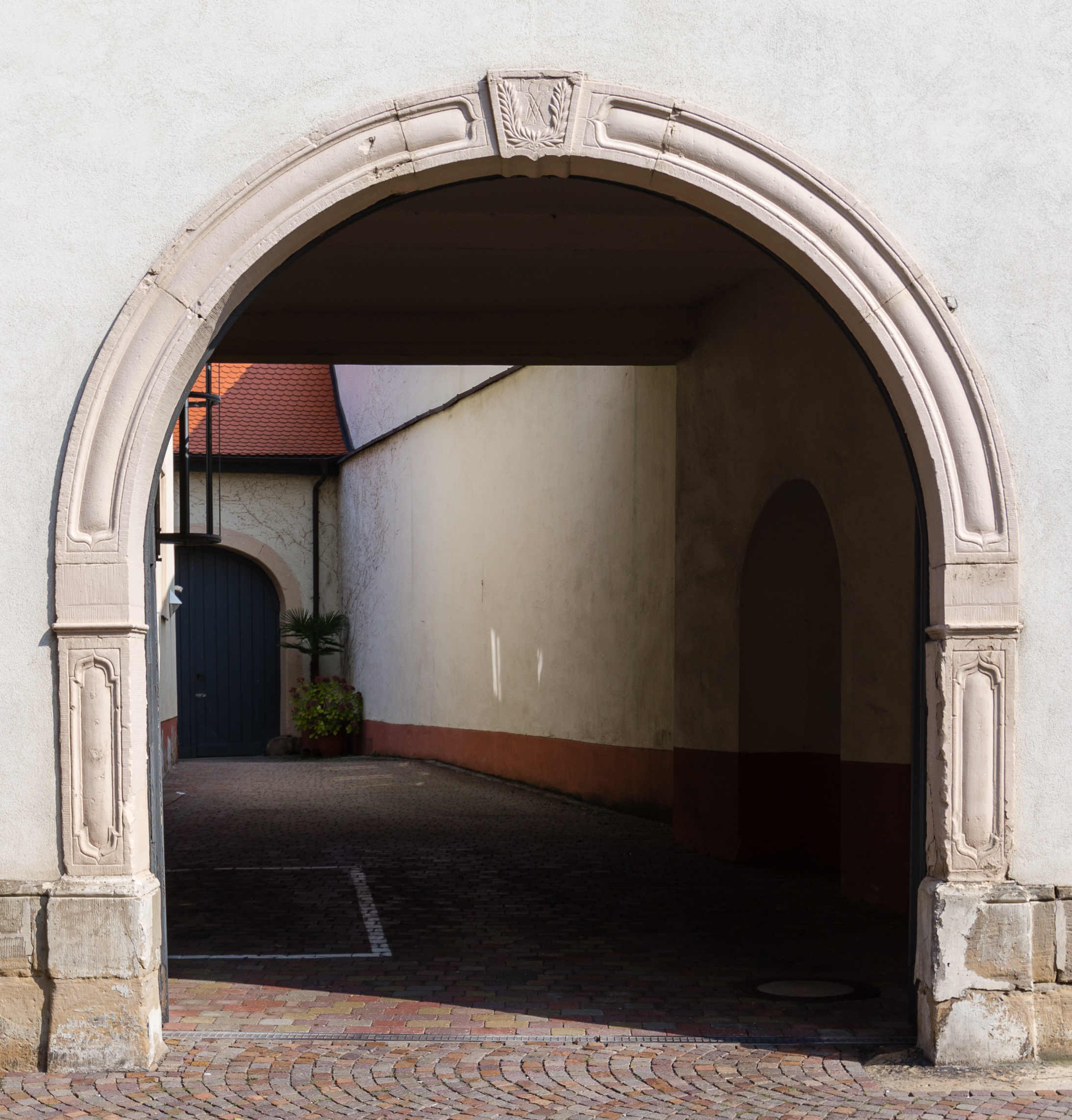 This is a photograph of an architectural monument.It is on the list of cultural monuments of Deidesheim Designation: Farmstead Construction time: 18th or 19th century Description: Former winemaker farm Late baroque hip roof building on L-shaped floor plan, gateway designated 1777, extension around 1890, staircase tower with hip roof. Late baroque hip roof barn. Place: Municipality Deidesheim, Collective municipality Deidesheim, District Bad Dürkheim, Rhineland-Palatinate, Germany Location: Weinstraße House number: 23